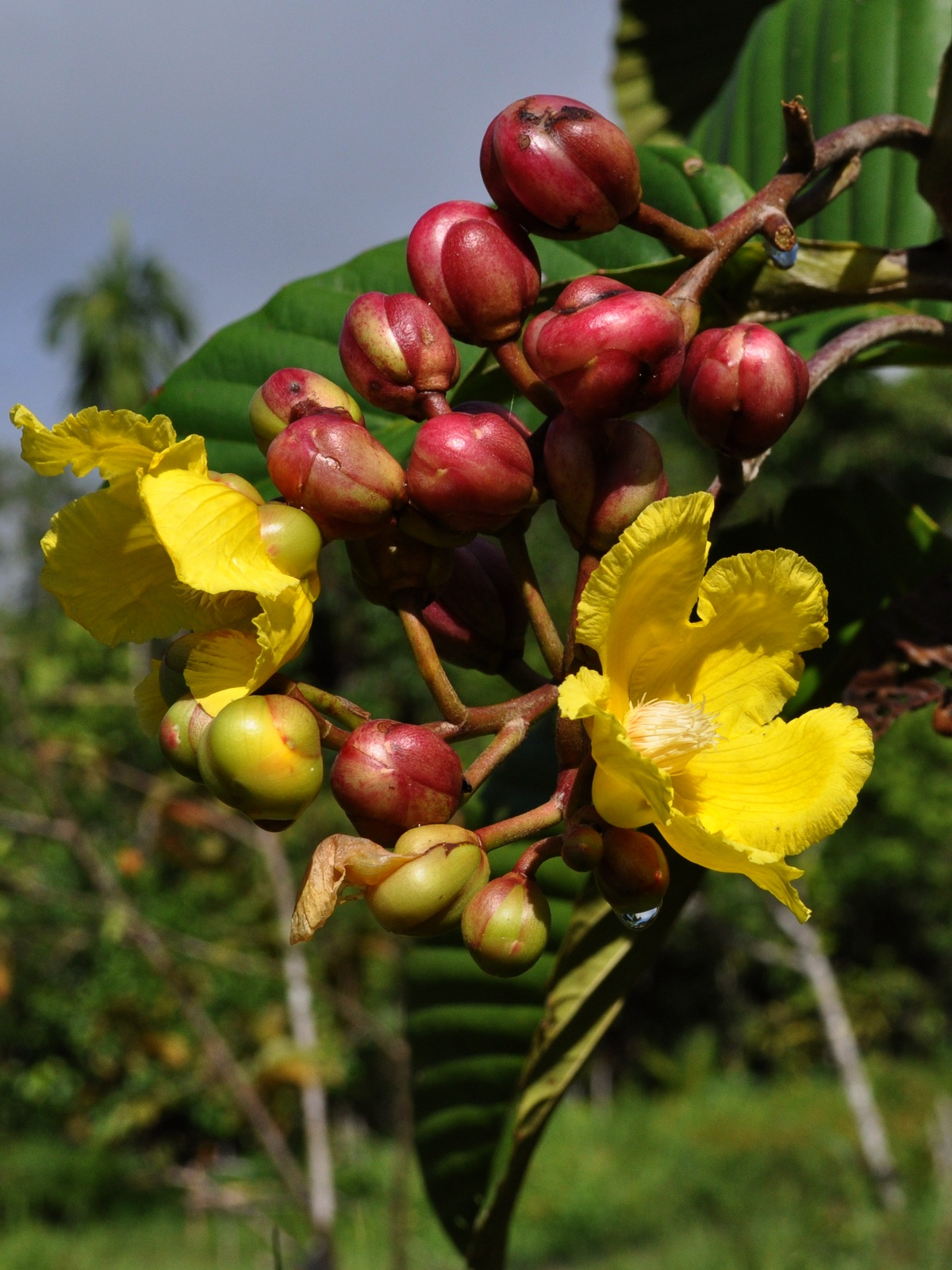 Dillenia suffruticosa flowers and racemes. From West Kalimantan, Indonesia.